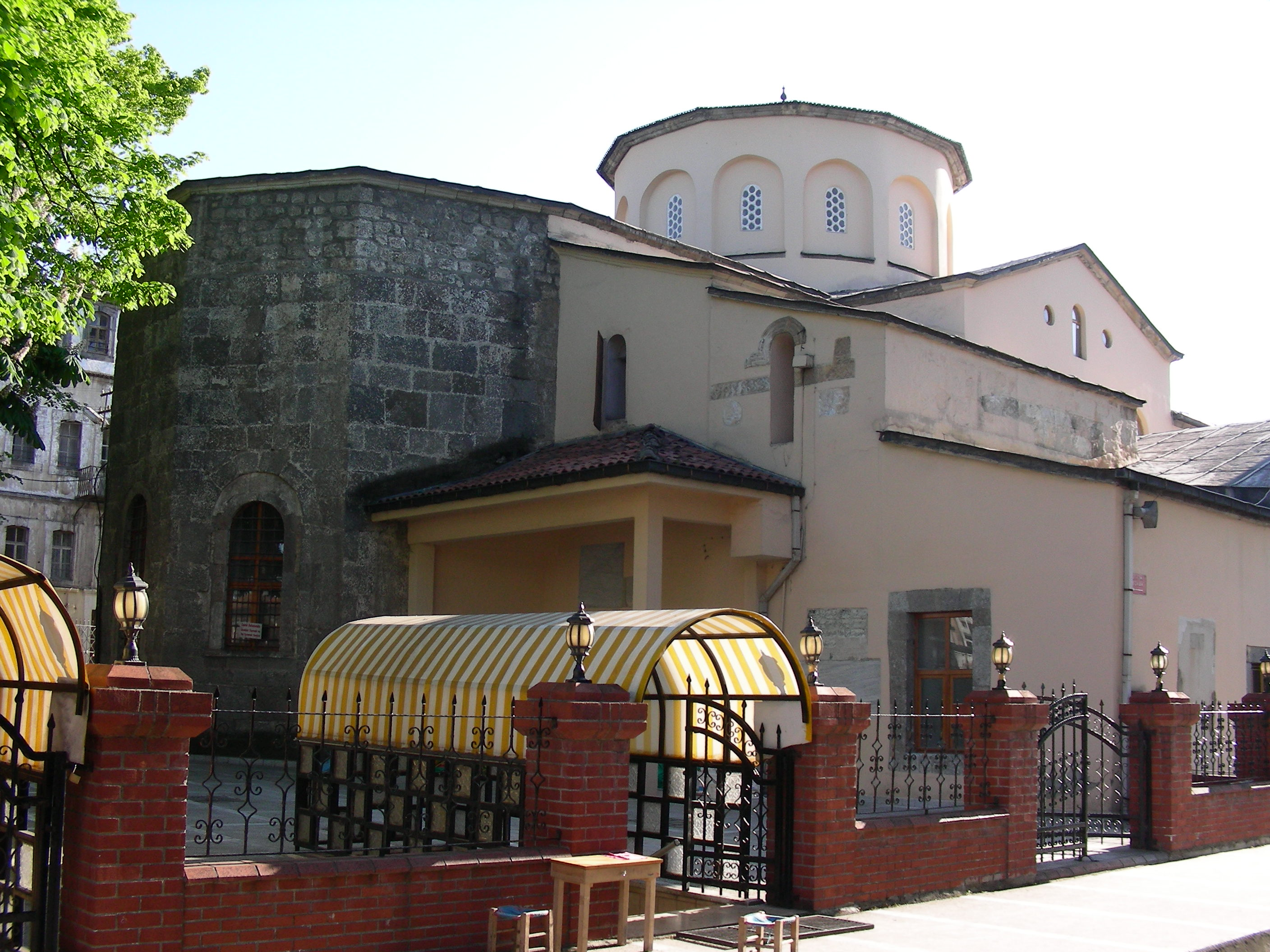 Trabzon, Orta Hisar Camii / Fatih Camii, ehemalige Kathedrale Panaghia Chrysokephalos